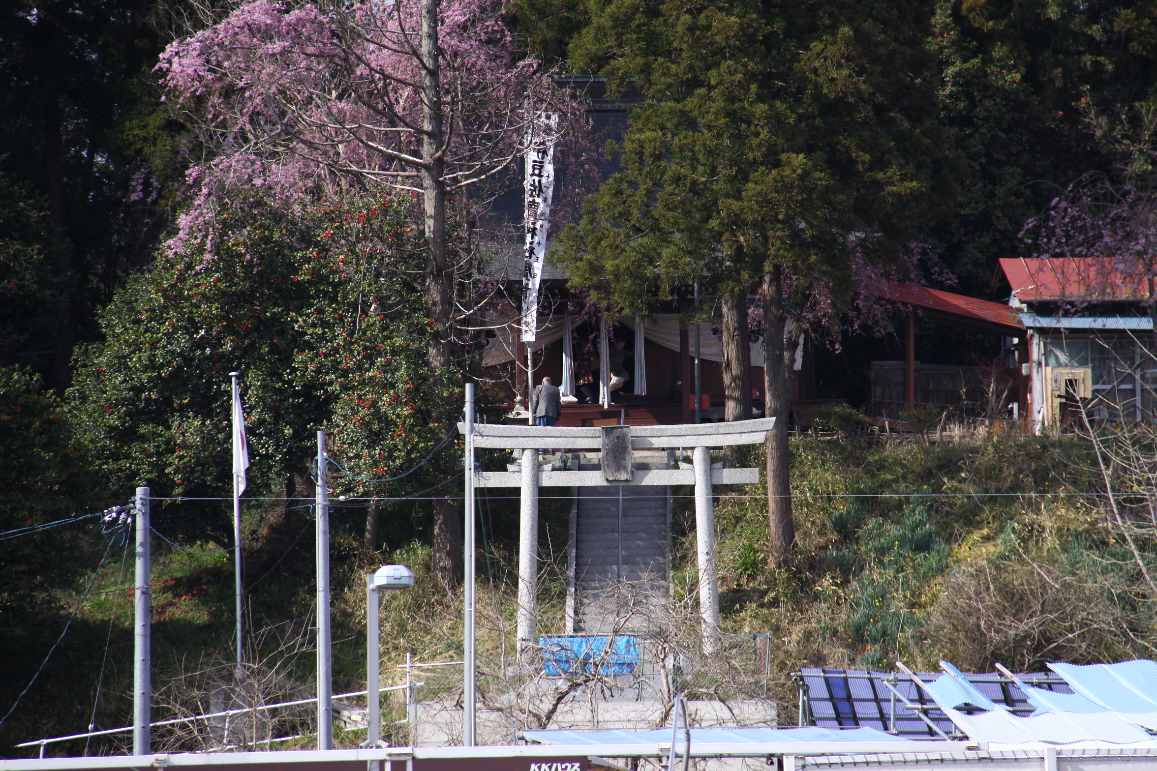 Izusahime jinja Gate